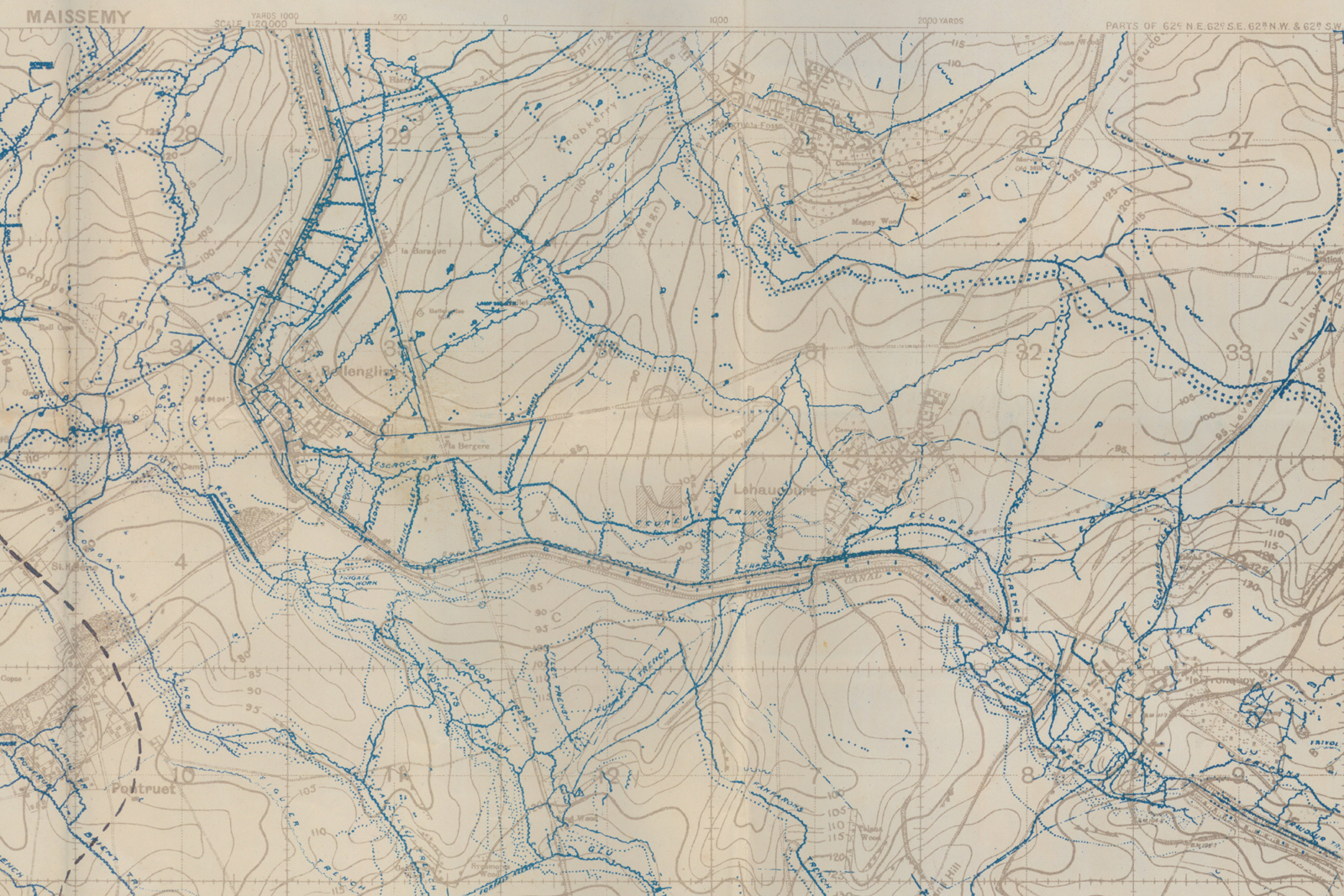 Detail from 1:20,000 scale trench map of Maissemy